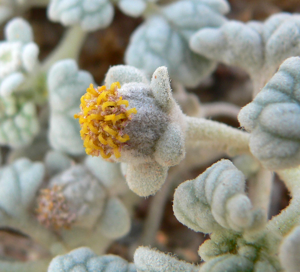 Psathyrotes ramosissima in lower Gypsum Wash near where Northshore Drive crosses it, Lake Mead National Recreation Area, southern Nevada